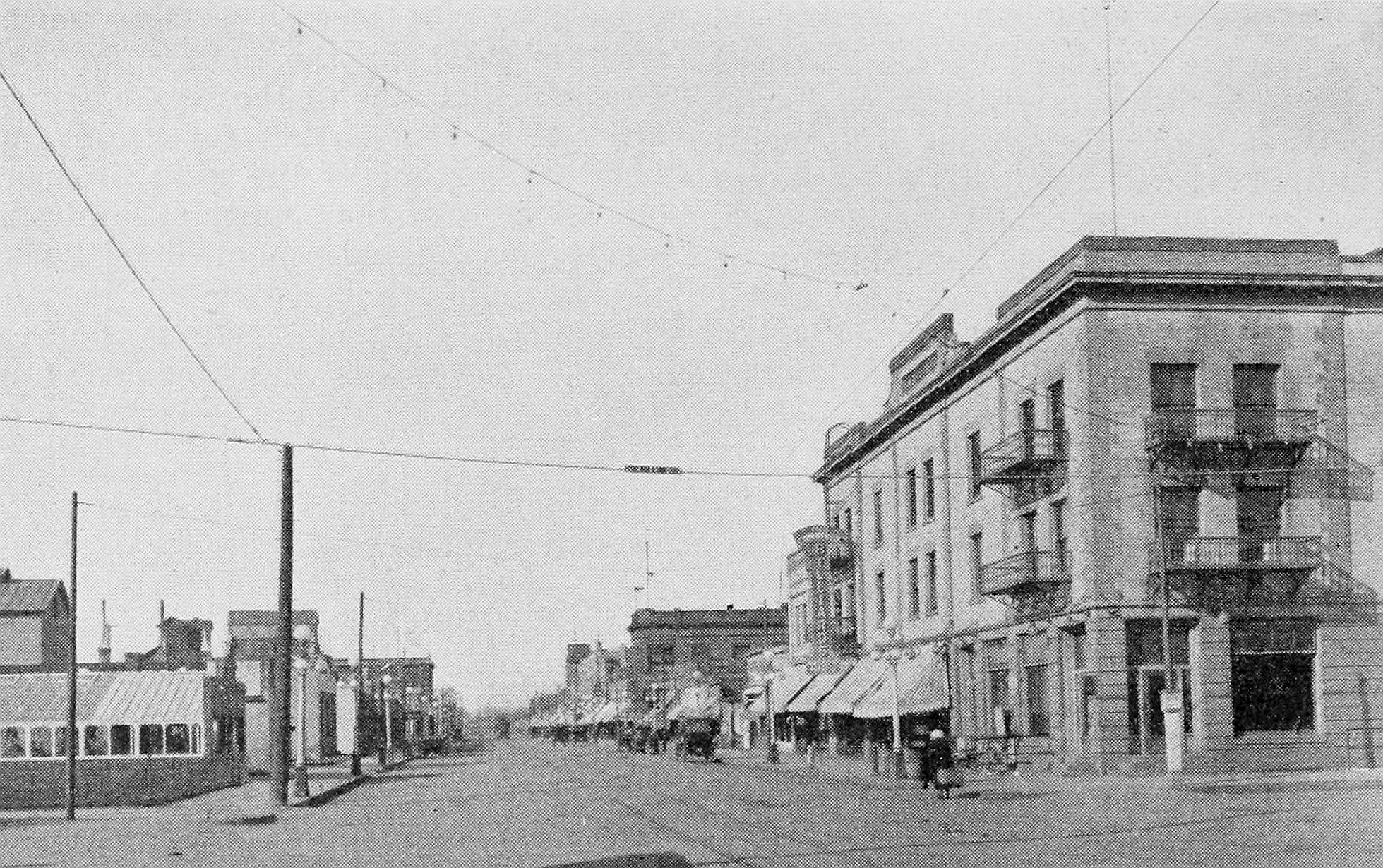 Title: Clay County Identifier: claycounty00meek Year: 1916 (1910s) Authors: Meeker, D. W. [from old catalog] Subjects: Agriculture Publisher: Moorhead, Minn. , D. W. Meeker Text Appearing Before Image: 112 CLAY COUNTY ILLUSTRATED Text Appearing After Image: Front Street, Moorhead, Looking West from Eighth Street Moorhead Moorhead has been known for many years to be the educational center of the northwestern part of the state. The city also enjoys the reputation of be- ing one of the leading cities of the Red River Valley. When Clay County was organized Moorhead became and is still the county seat. The city has a population of about 5,500 and has all the improvements that a city of many times the population might be expect- ed to have. It is on the main line of the North- ern Pacific and on both the Fergus Falls and Breckenridge lines of the Great Northern, besides being the ter- minus of several of the branch lines